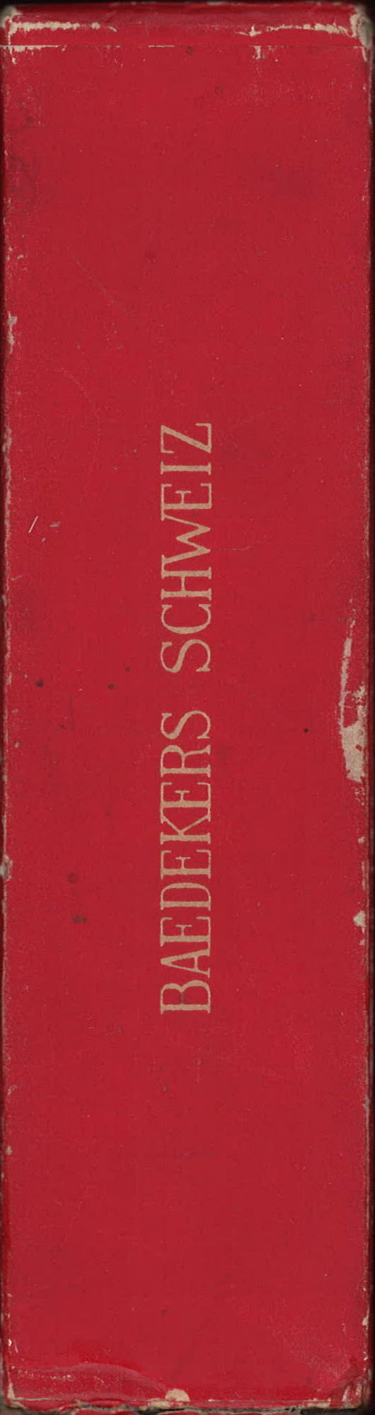 Baedeker D 327, Schweiz 1930, 38th edition in 4 volumes and slipcase, Slipcase's spine